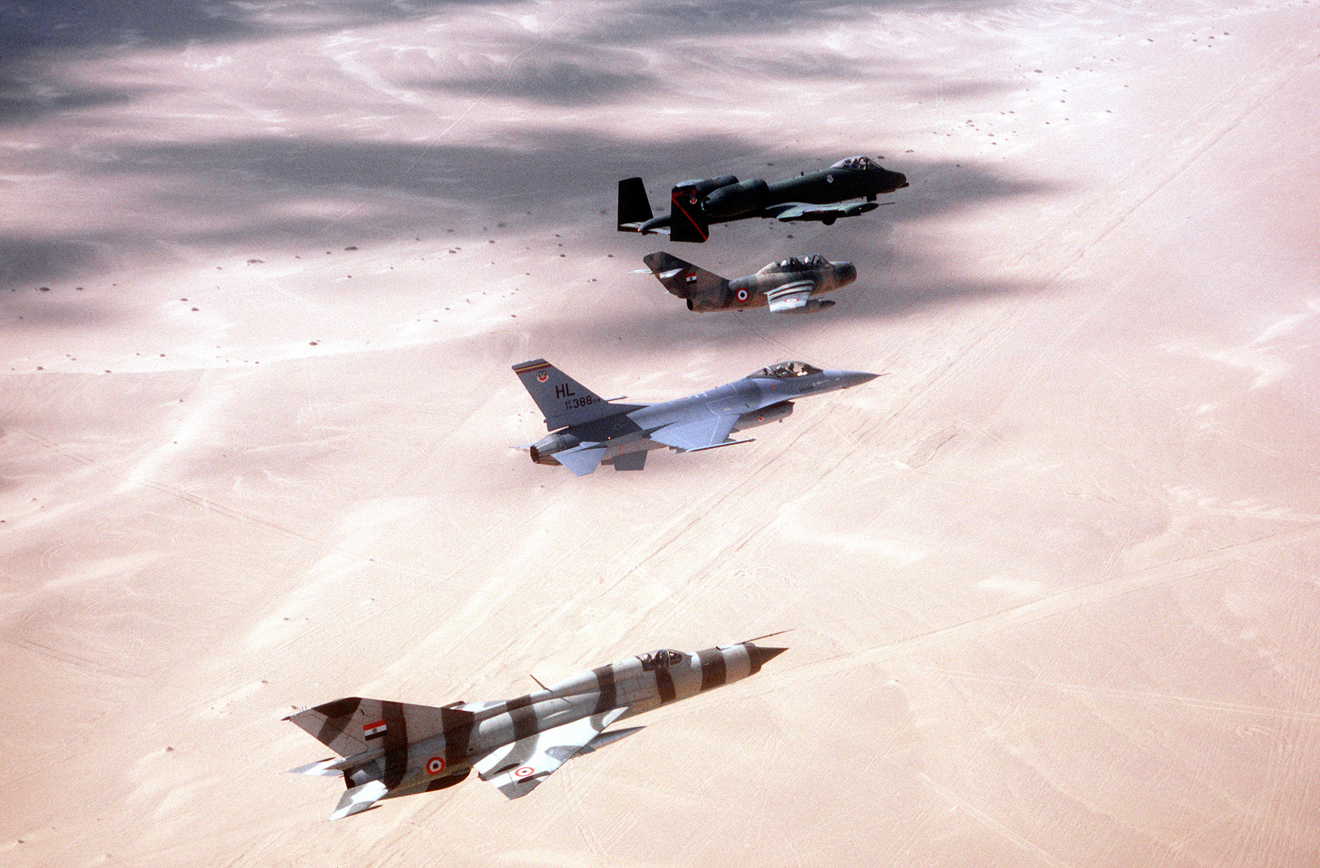 A right side view of aircraft in flight over the desert during exercise Bright Star '82. The aircraft are from front to back: a MiG-21PFM, F-16 Fighting Falcon, MiG-15UTI and an A-10 Thunderbolt II.